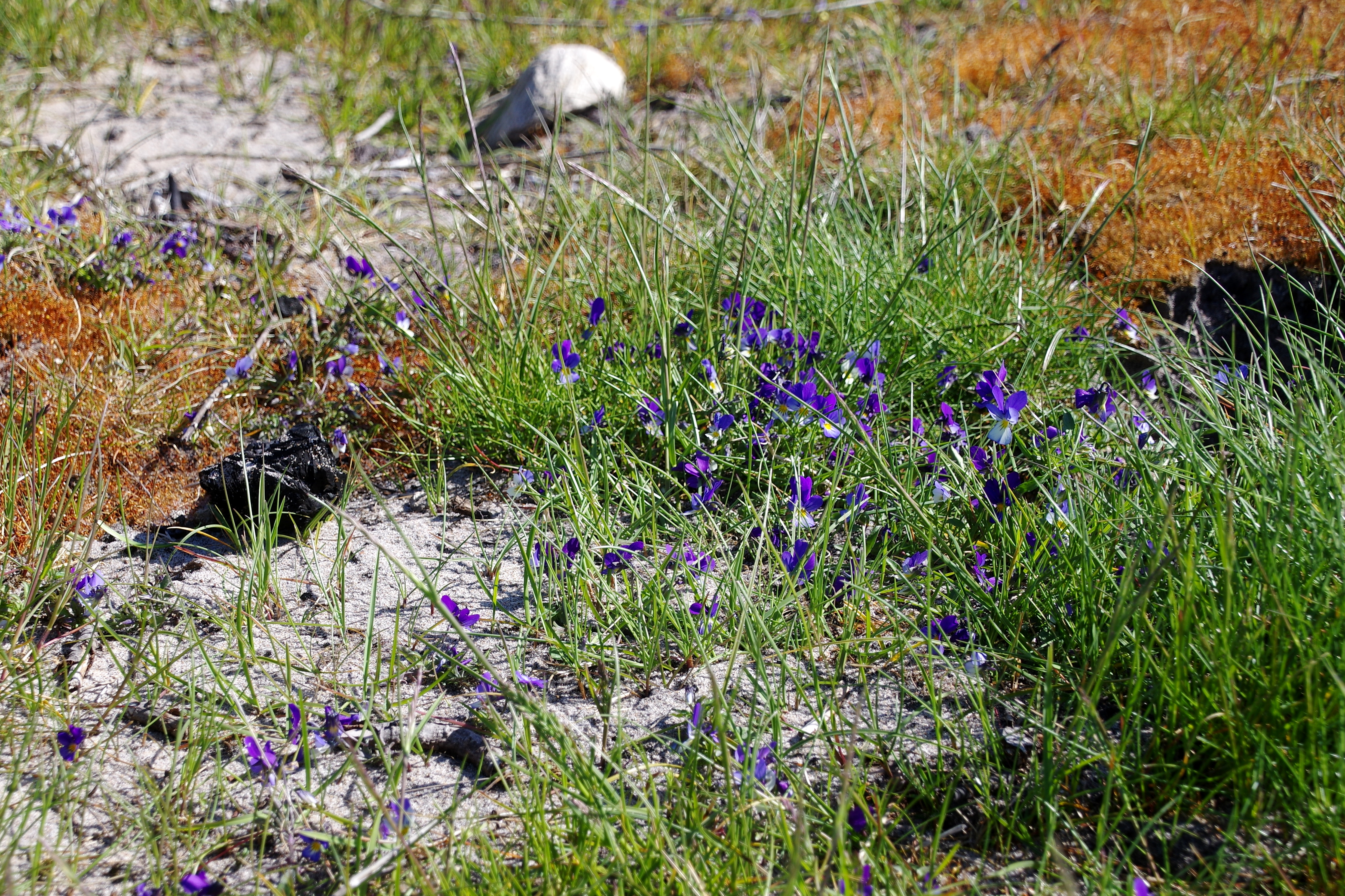 Domsten-Viken Natural Reserve, Wild pansy